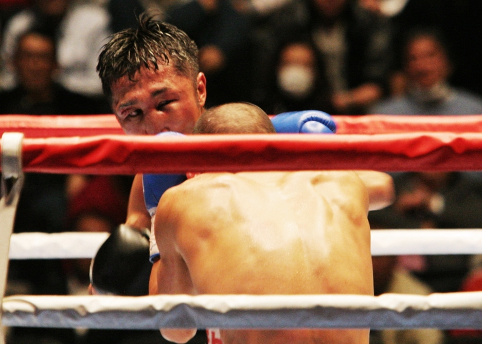 Daisuke Naitō fighting with his face swollen against Kōki Kameda at Saitama Super Arena on November 29, 2009.